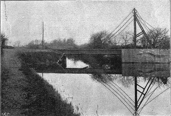 Lift bridge over Chichester Canal, on West Sussex Railway, 1897